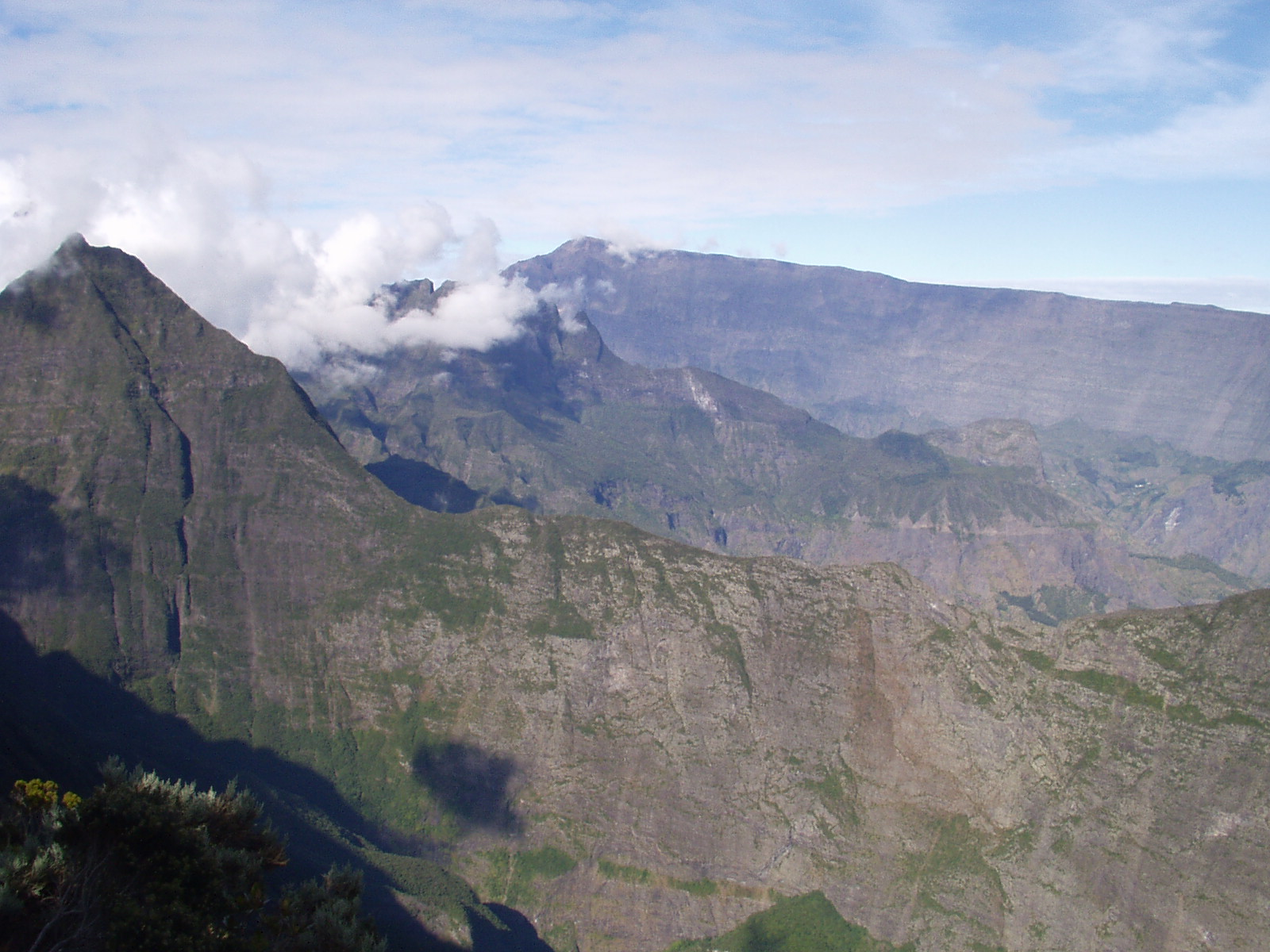 The view is taken from la Roche écrite (the written rock) on the French island of Réunion.